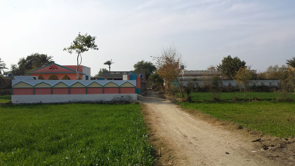 YOUNIS